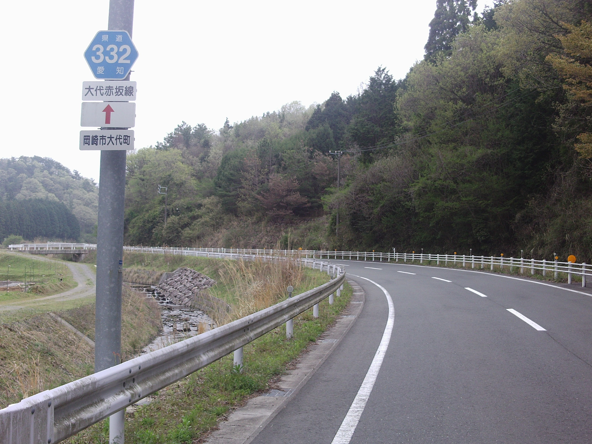 Aichi prefectural road No.332 in Ojirocho, Okazaki, Aichi.